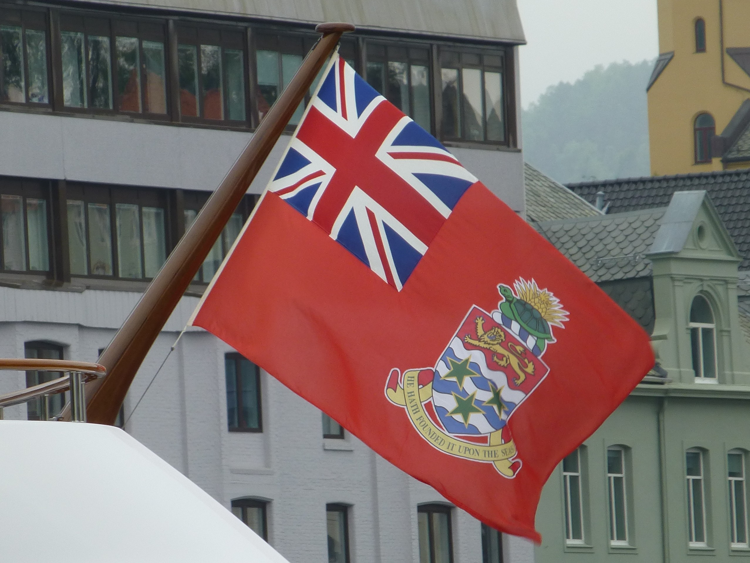 Civil ensign (since 1999) of the Cayman Islands, photo taken in Bergen, Norway